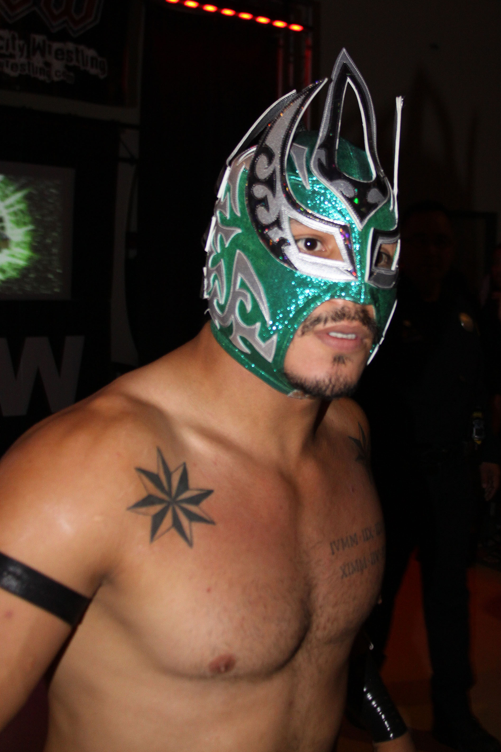 Professional wrestler Laredo Kid in july 2018